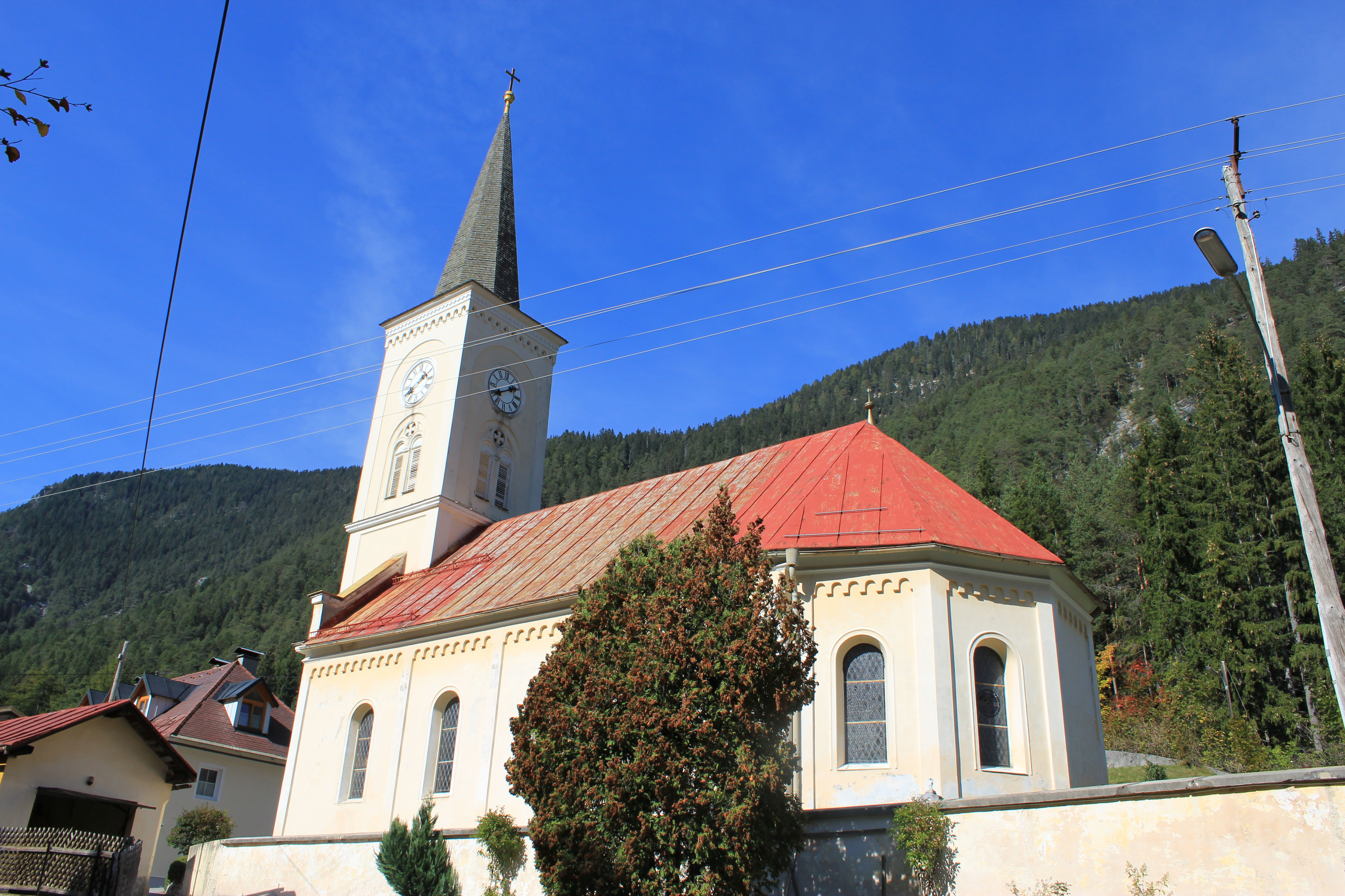 Lutherian parish church in the community of Bad Bleiberg